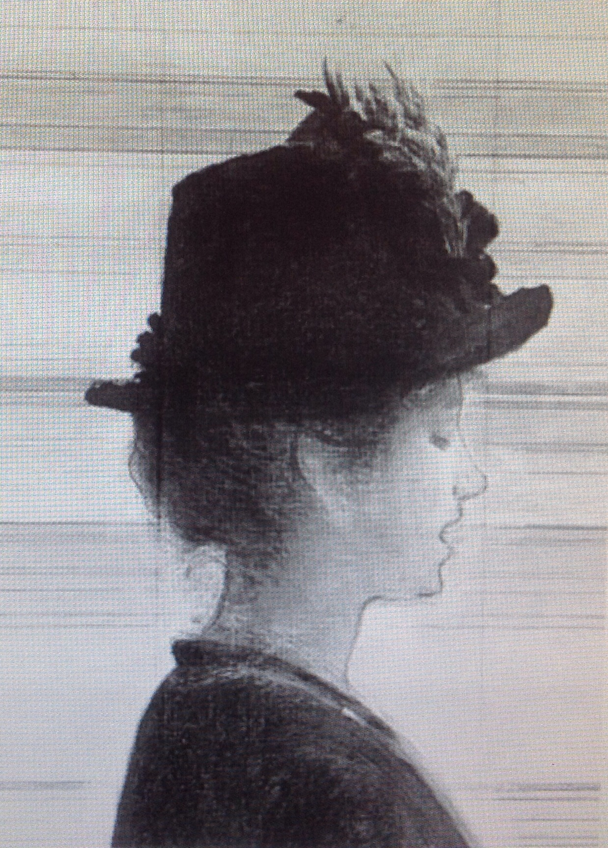 Organ Rehearsal, singing woman, infrared.